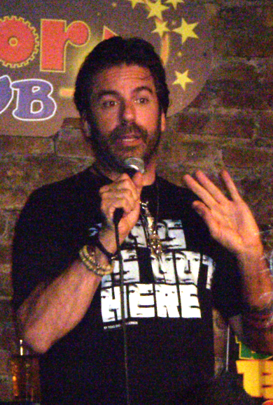 On September 24, 2010, Greg Giraldo performed his last show at the Stress Factory in New Brunswick, New Jersey.